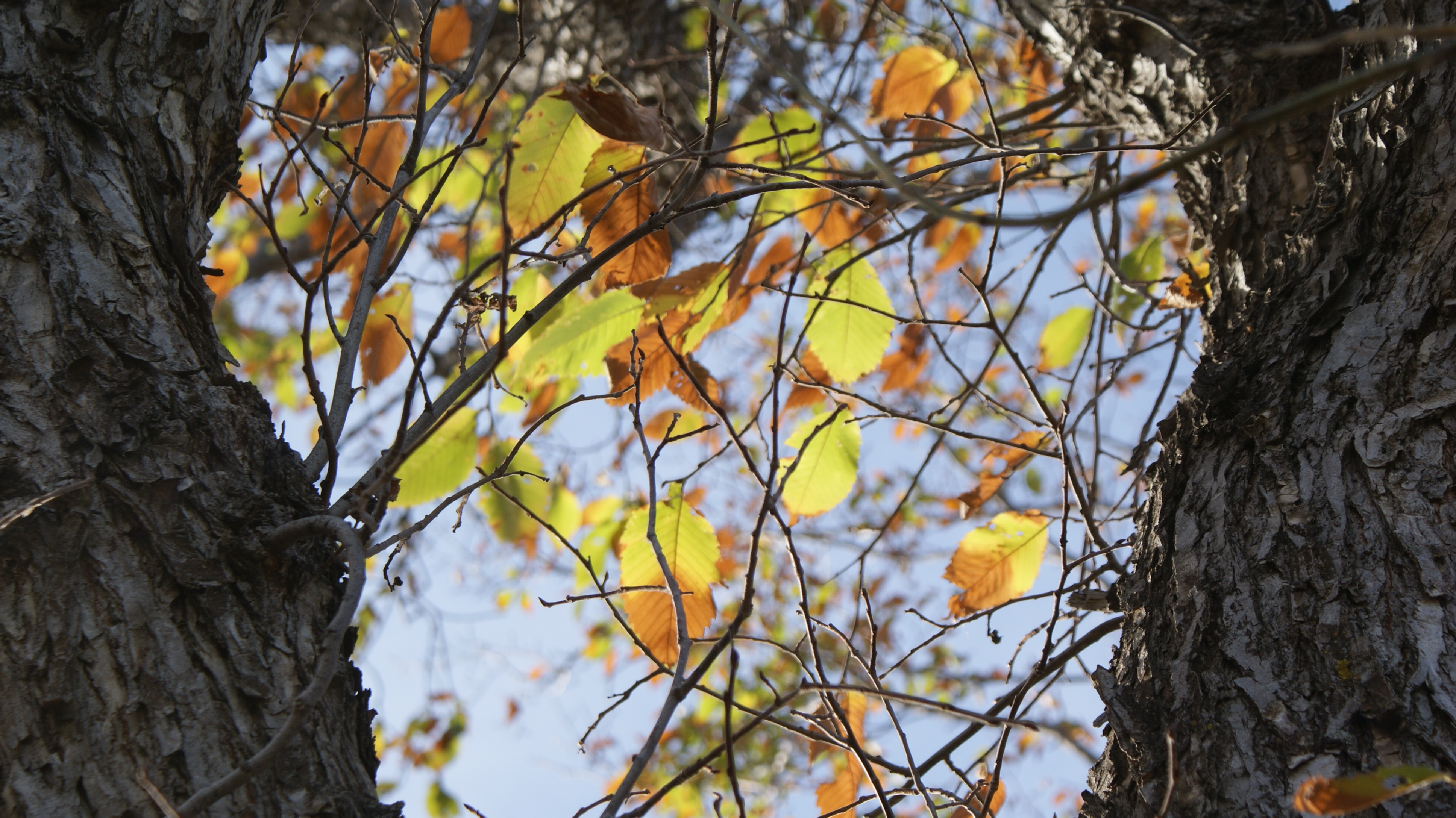 Elm leaves of American elm (Ulmus americana) City of Saskatoon Dutch elm disease (DED) SOS Elms